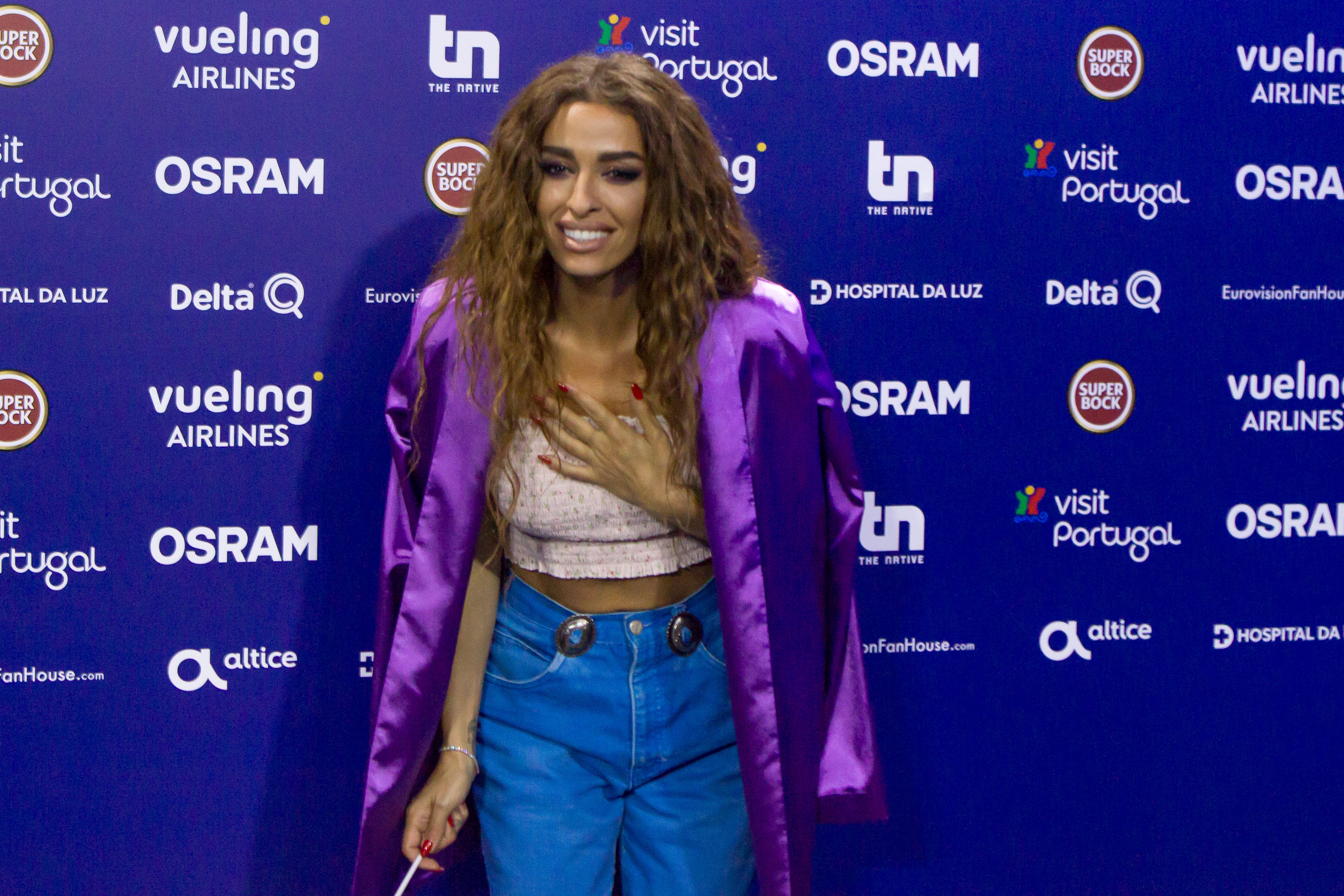 Press conference after the first Semi-Final of the 2018 Eurovision Song Contest